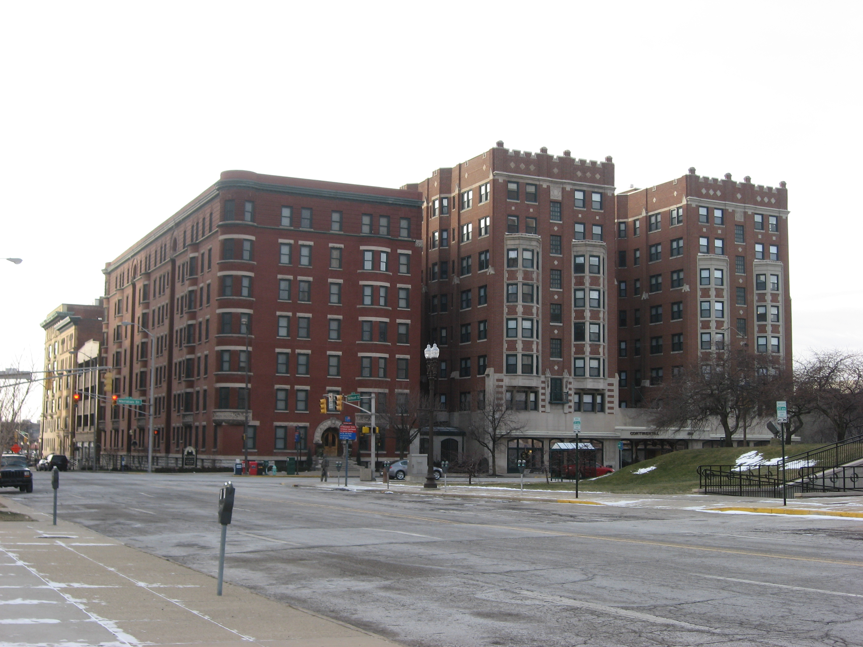 Front of the Spink Arms Hotel, located at 410 N. Meridian Street in Indianapolis, Indiana, United States. Built in 1919, it is listed on the National Register of Historic Places.